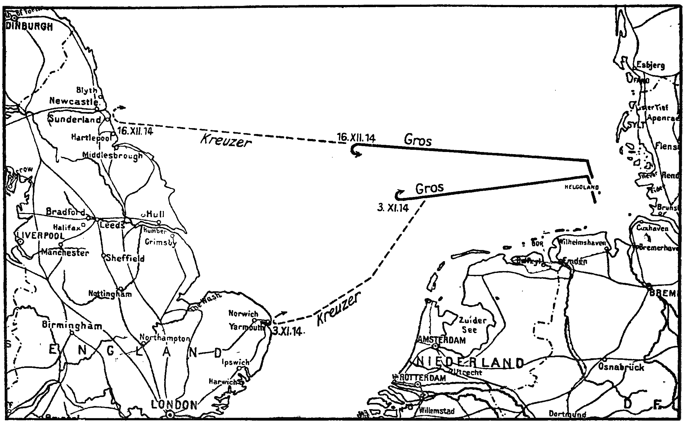 Diagram from Chapter 5. "The Bombardment of the East Coast on November 3 and December 16, 1914"